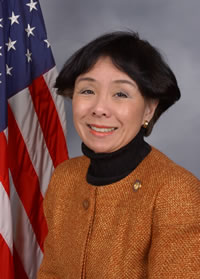 Doris Matsui, U.S. Congresswoman.